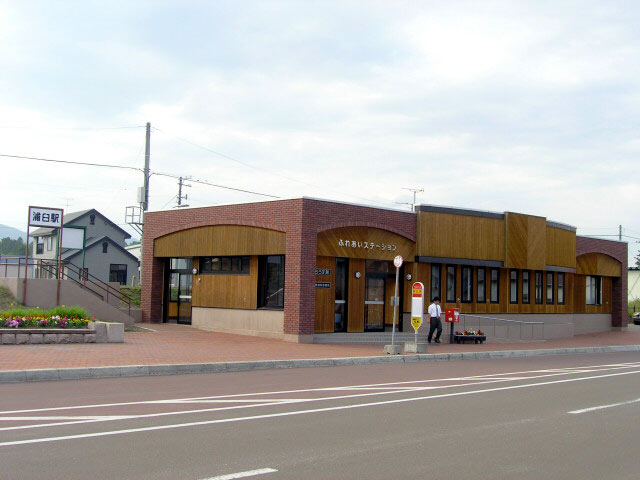 Urausu Station on Sassho Line, Japan